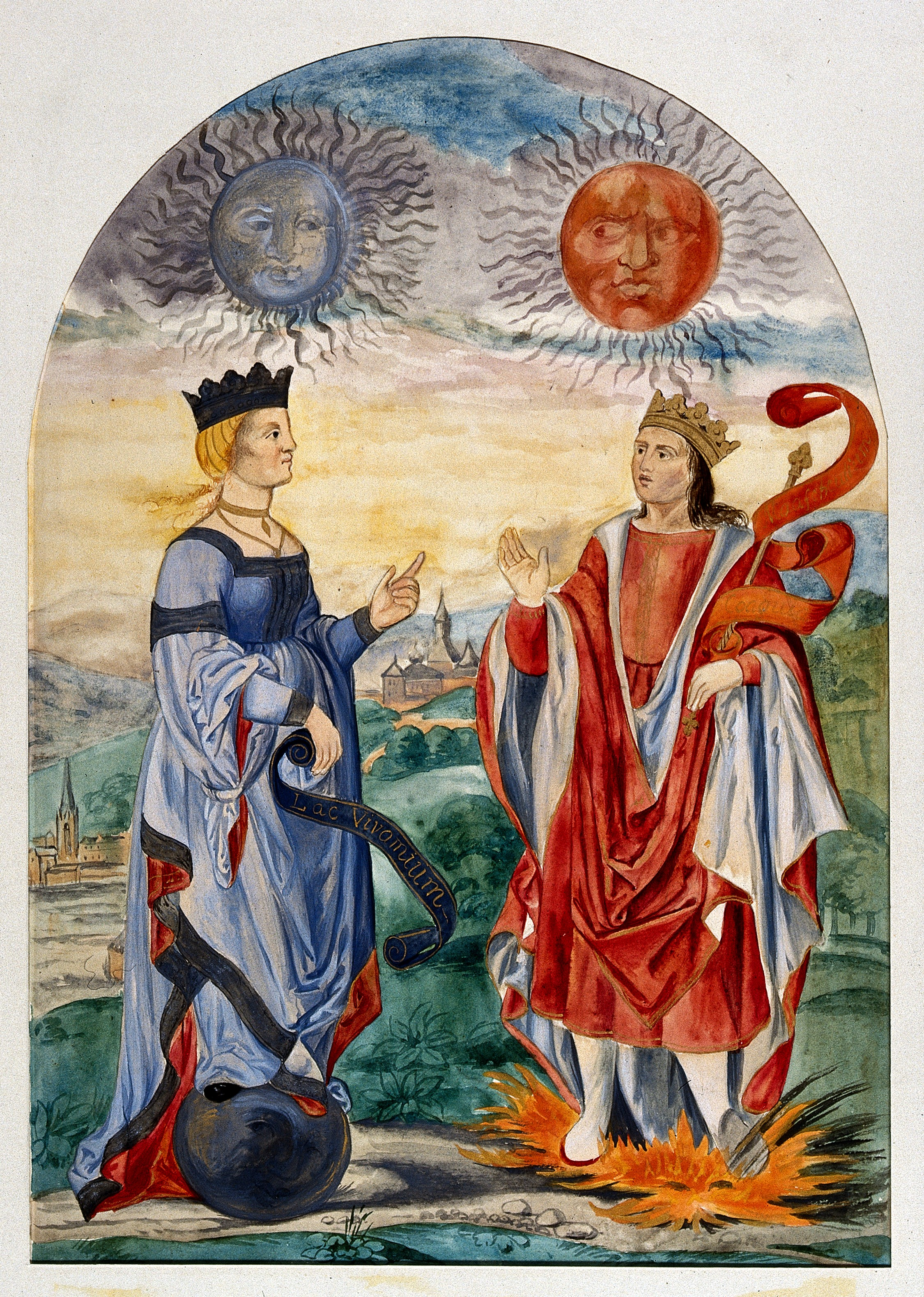 A moon above a queen dressed in blue, and a sun above a king dressed in red; representing two alchemical principles: the dissolving 'lac virginis' (mercury) and the coagulating masculine principle (sulphur); from Salomon Trismosin's 'Splendor solis'. Watercolour painting. Iconographic Collections Keywords: Mercury; splendor solis; salomon trismosin; Alchemy; SULPHUR; Salomon Trismosin